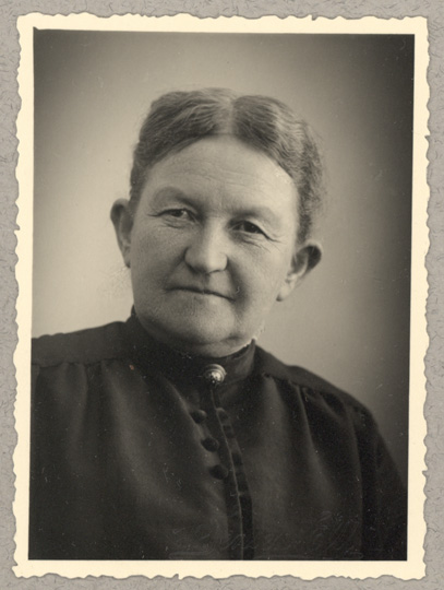 Olga Knudsen (1865-1947). Lærerinde / schoolmistress. Venstre / the Liberals. Landstinget 1918-28.